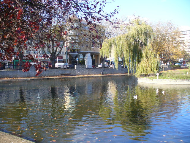 The Pond, Feltham Oasis at the side of busy Feltham High Street which is currently undergoing extensive redevelopment.